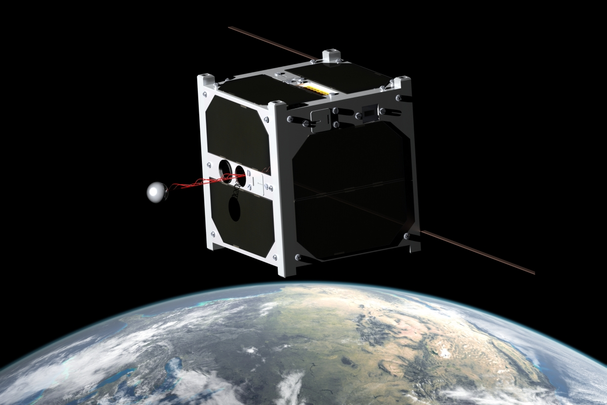 Artistic illustration of ESTCube-1, the first Estonian satellite. It is a 1U CubeSat.